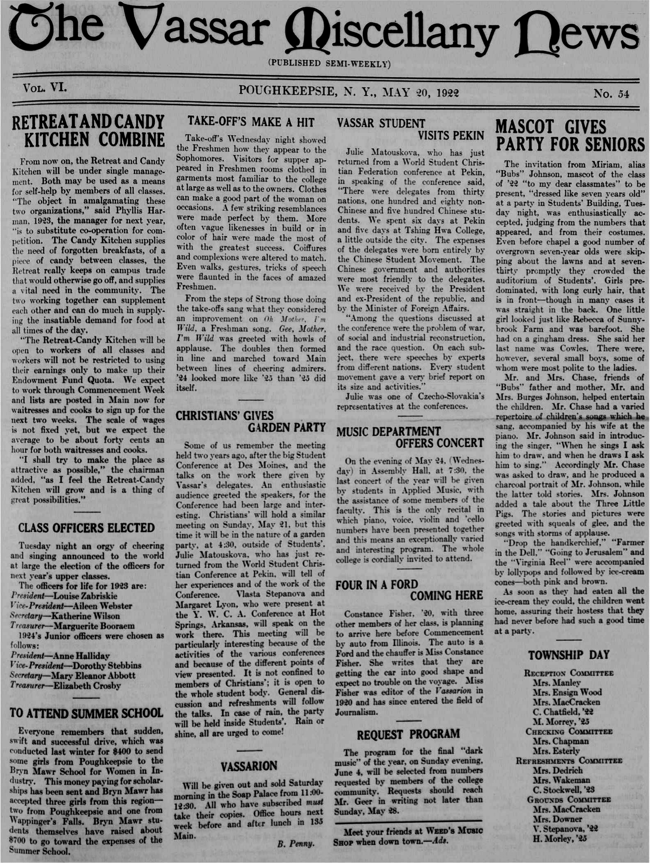 The front page of the May 20, 1922, issue of Vassar College's student newspaper, The Miscellany News.